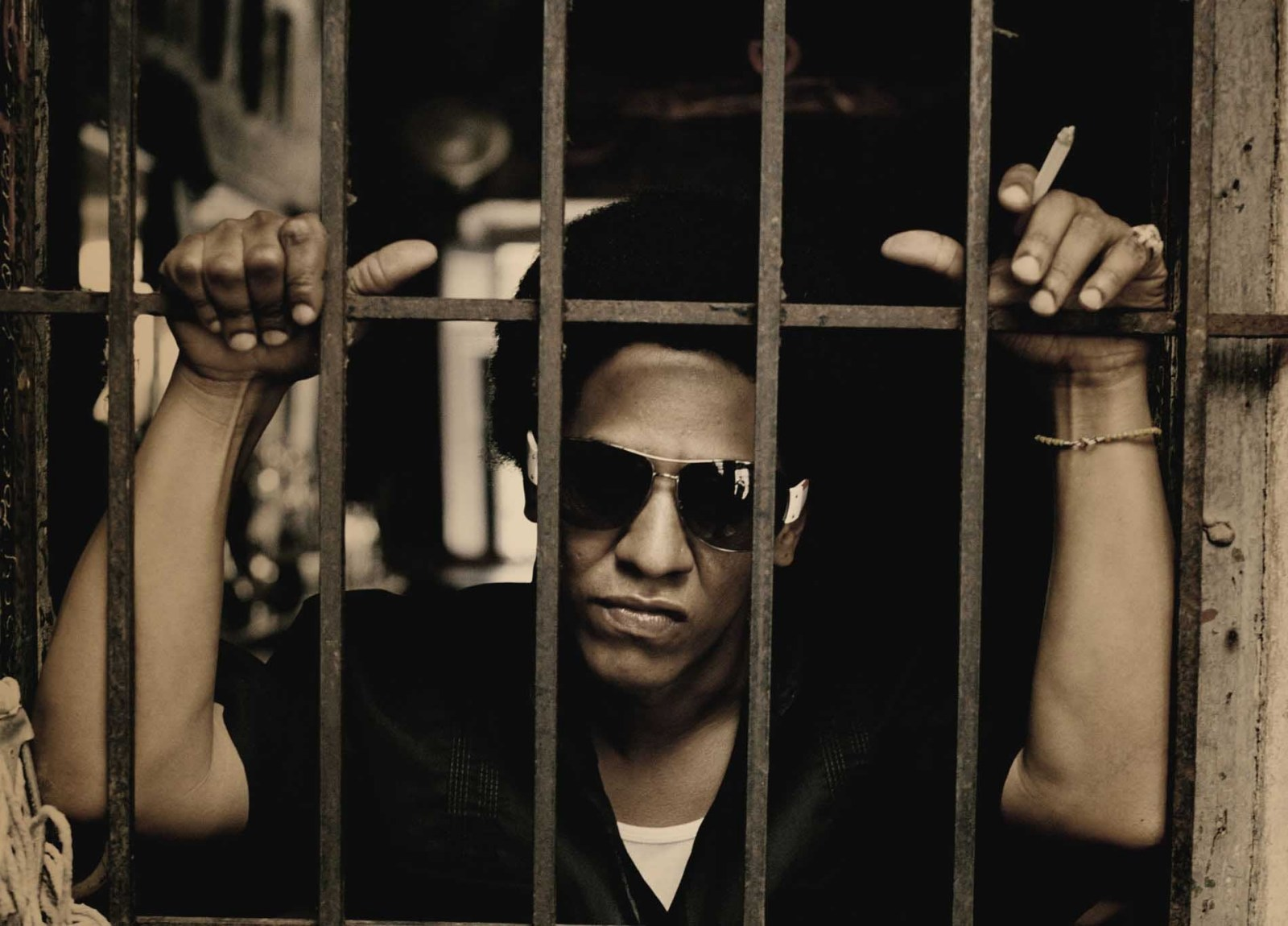 Tego Calderon